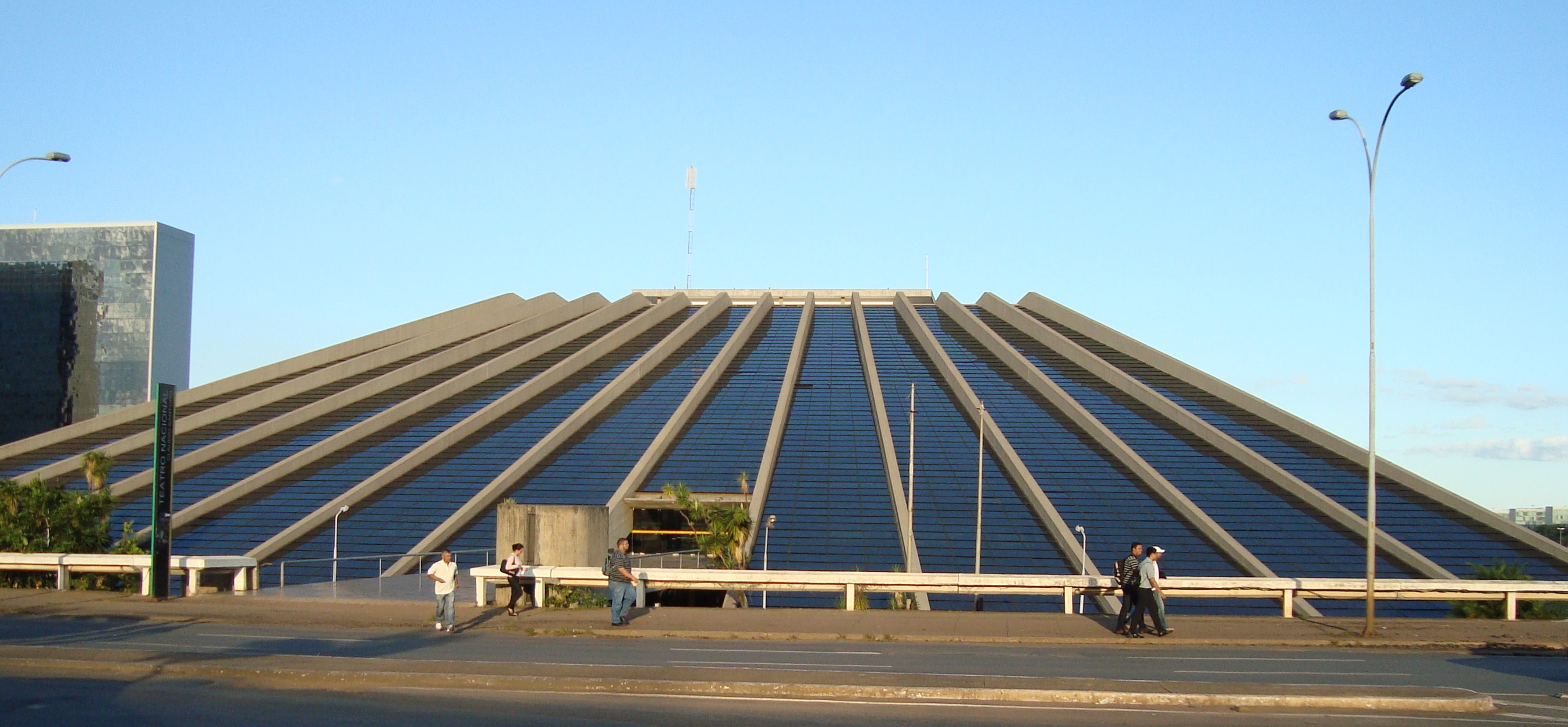 National Theater in Brasilia, Brazil